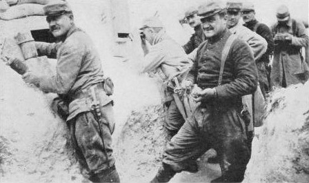 Cropped to show the image only. Original caption "Americans in the Foreign Legion - showing type of hand-grenades"